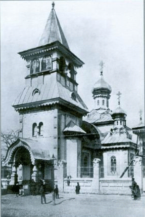 St. John Chrysostom Church, (Iron Church) in Kiev